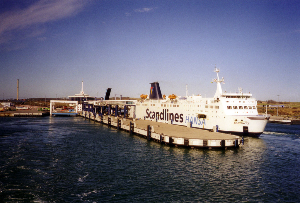 Sassnitz – district Mukran – harbour IMO Number: 8705383 MMSI Number: 211189000 Callsign: DQEJ Length: 172 m Beam: 24 m